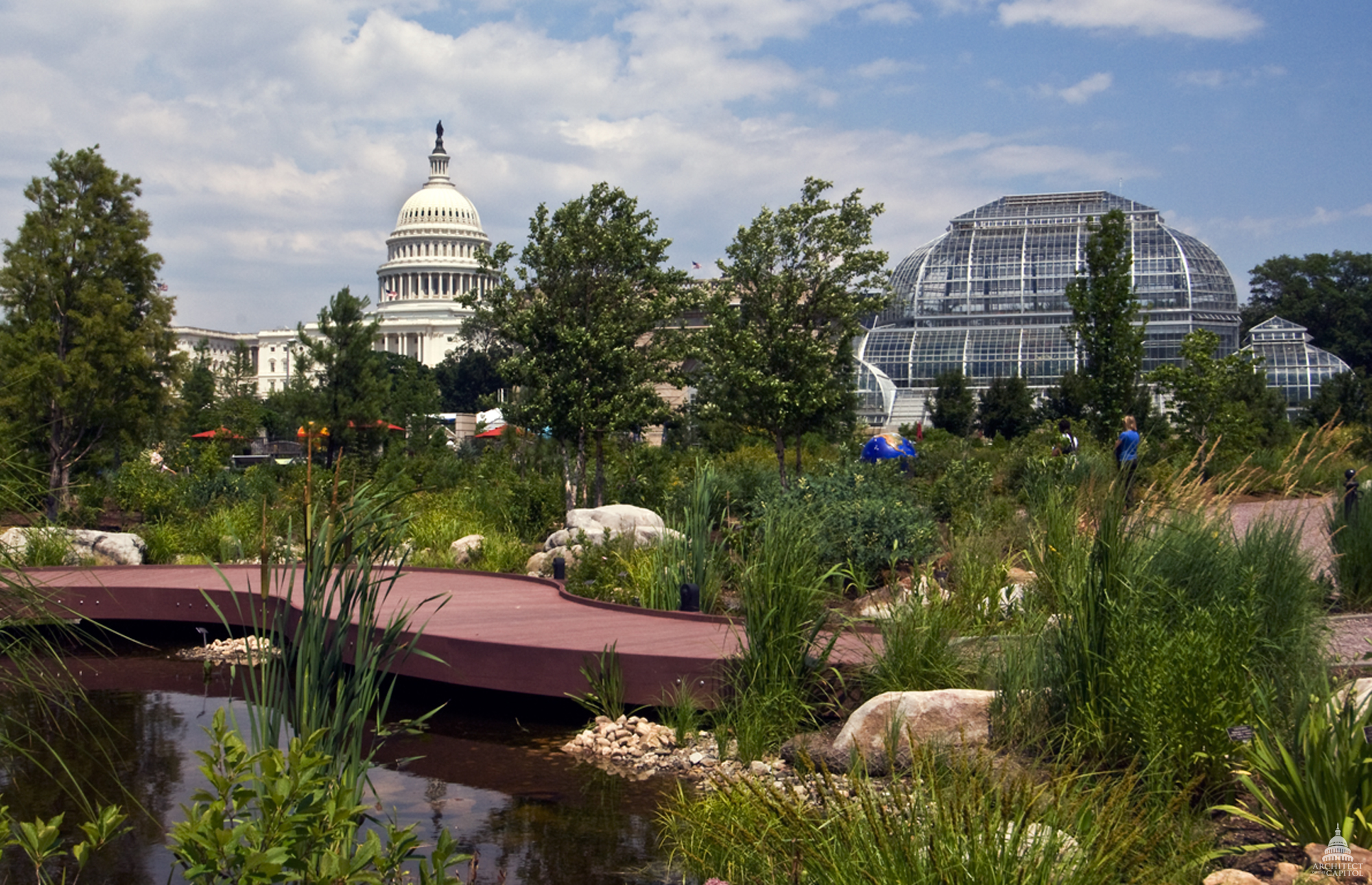 View of the United States Capitol and U.S. Botanic Garden Conservatory from the National Garden This official Architect of the Capitol photograph is being made available for educational, scholarly, news or personal purposes (not advertising or any other commercial use). When any of these images is used the photographic credit line should read “Architect of the Capitol.” These images may not be used in any way that would imply endorsement by the Architect of the Capitol or the United States Congress of a product, service or point of view. For more information visit